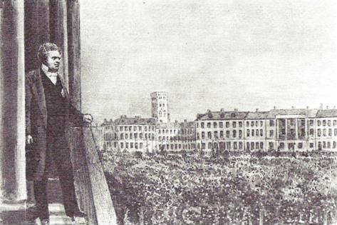 C. C. Hall proclaims Frederick VII's death and Christian IX's ascend to the throne.